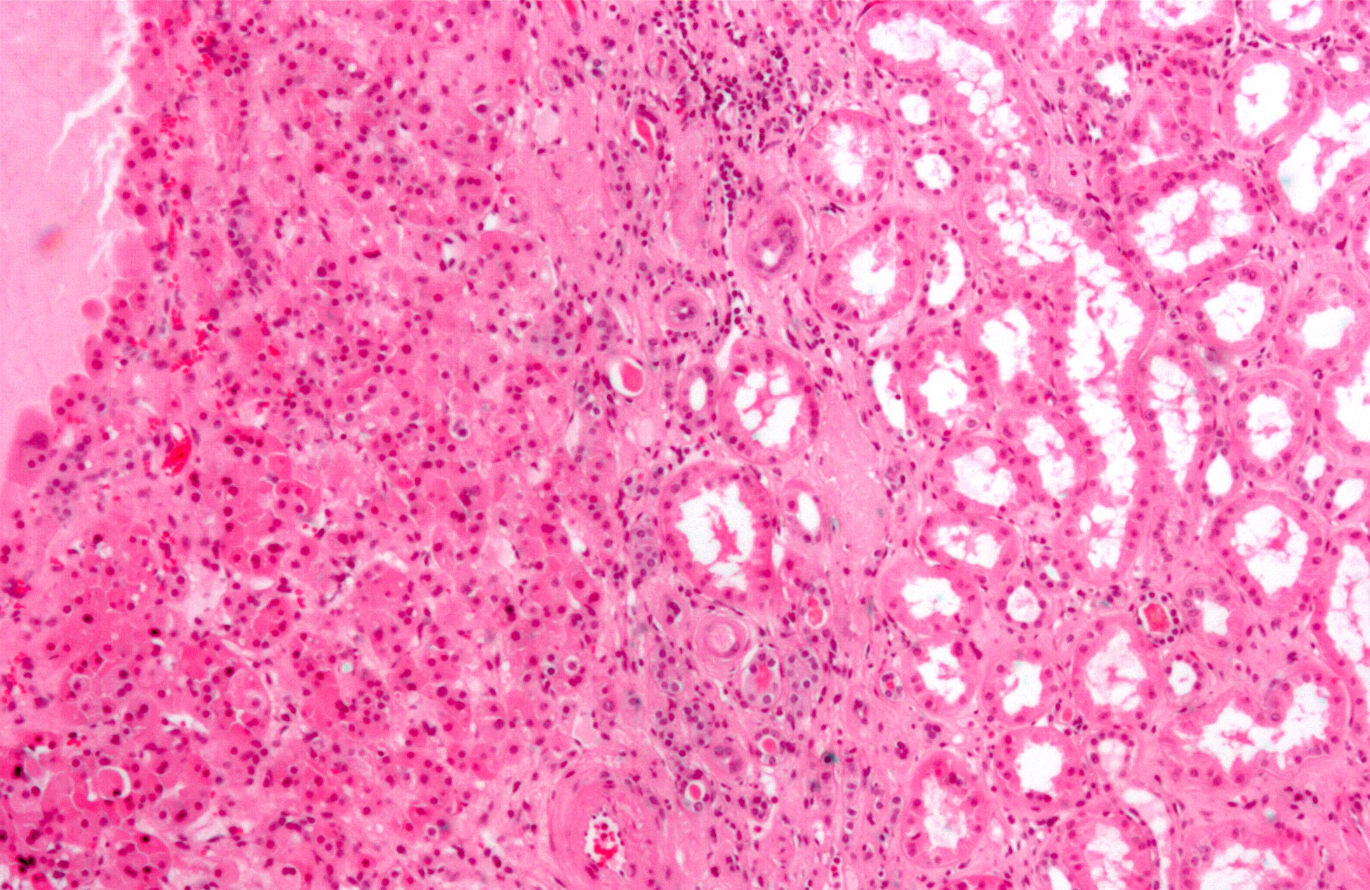 High magnification micrograph of a renal oncocytoma. H&E stain. The tumour cells (left of the image) are arranged in nests, have slightly enlarged nuclei and have a more eosinophilic (darker pink) cytoplasm than the normal kidney - renal tubules (right of image). On electronmicroscopy, oncocytomas have abundant mitochondria. See also Image:Renal_oncocytoma3.jpg - intermediate magnification. Image:Renal_oncocytoma4.jpg - low magnification.